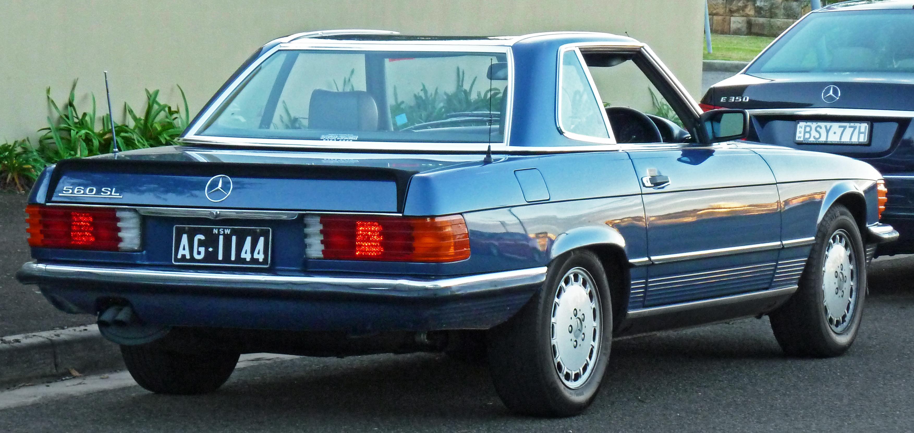 1987 Mercedes-Benz 560 SL (R 107) roadster. Photographed in Double Bay, New South Wales, Australia.